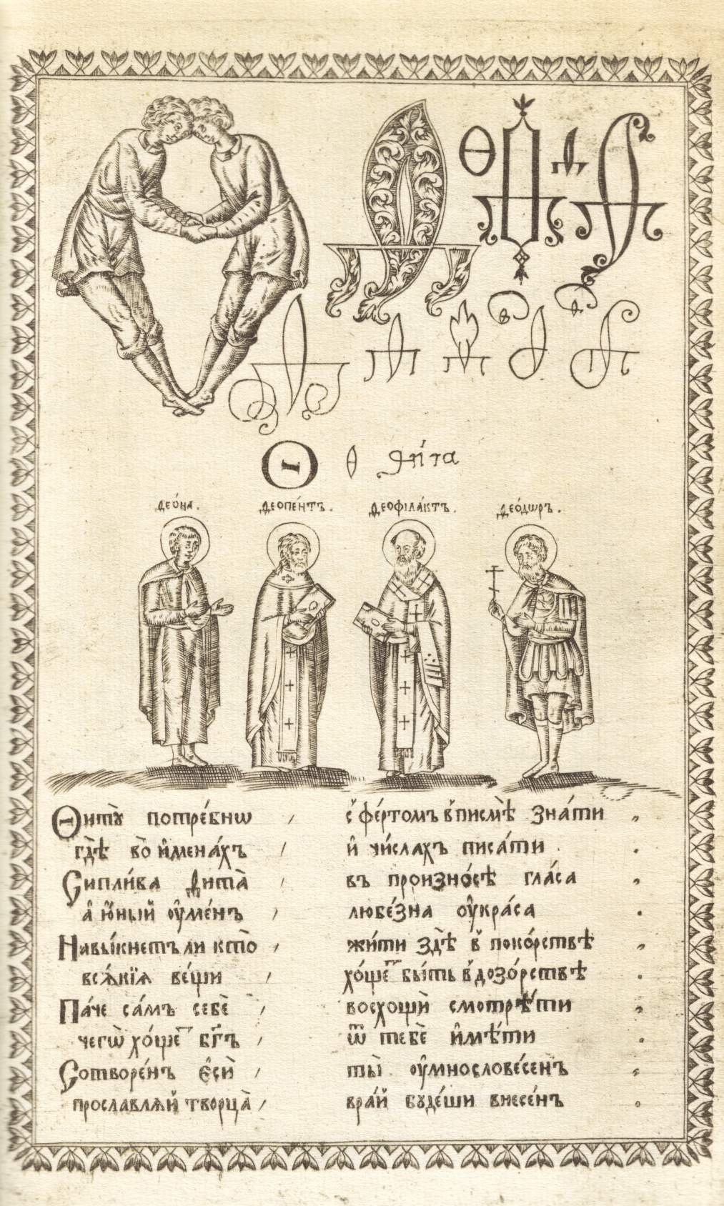 Karion Istomin's alphabet book, letter Ѳ